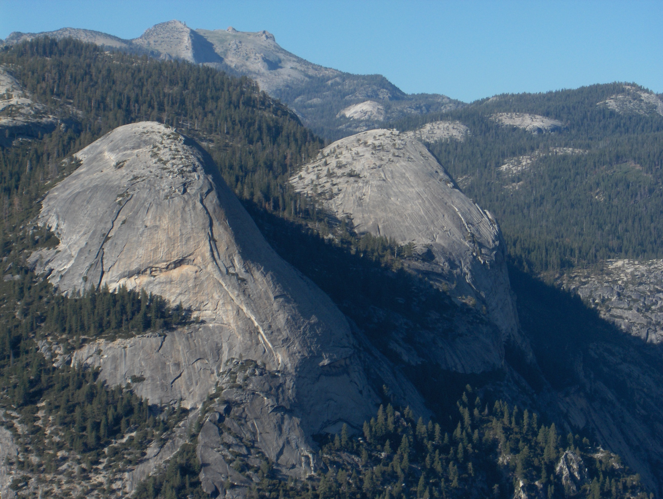 North Dome And Basket Dome above Tenaya Canyon